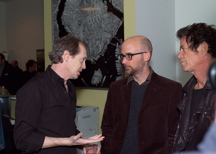 Steve Buscemi, Moby and Lou Reed (from left to right)